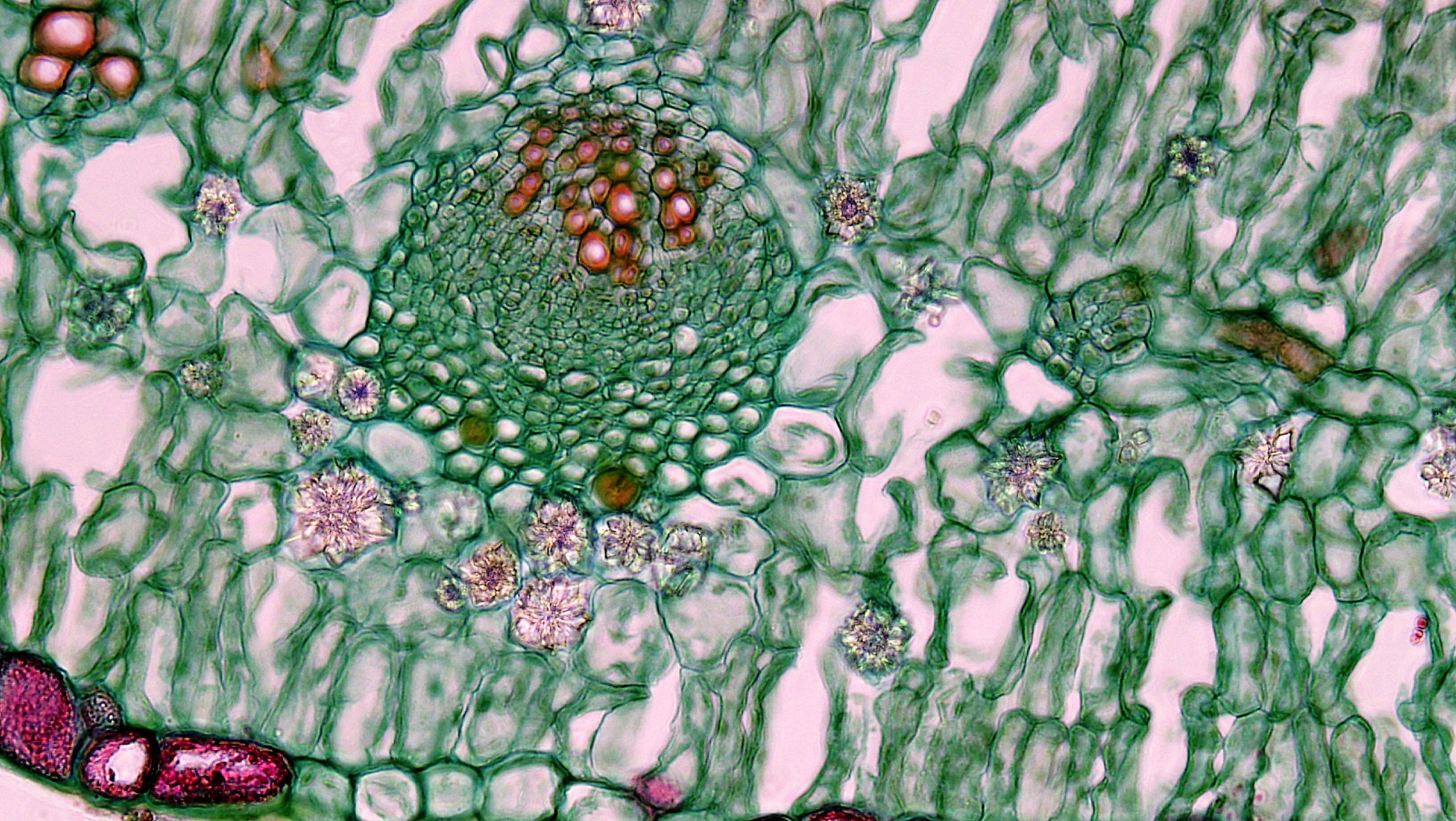 cross section: Larrea magnification: 100x common name: Creosote The leaves of Larrea show numerous structural adaptations that extend their tolerance to drought and desiccation. The epidermis consists of a single layer of small compact and heavily cutinized cells. Most epidermal cells contain dark staining deposits of waterproofing resins. Long epidermal hairs and stomata are present over the entire leaf surface. Stomata are roofed by epidermal cells with ledge like extension of cutin and overlay large substomatal chambers. Two or three rows of tightly packed palisade mesophyll are present below the adaxial and abaxial epidermis. Spongy mesophyll is reduced to a narrow central band that supports the vascular bundles. In some preparations resins may be seen lining the stomatal cavities and coating the outsides of palisade cells. Idioblasts containing crystals of calcium oxalate are abundantly distributed through both mesophylls. Small, centrally located vascular bundles span the breadth of the leaf. The bundles are collateral and closed with xylem of vessels and tracheids towards the adaxial(upper) surface and phloem of sieve tubes and companion cells towards the abaxial (bottom) surface. Cambium is not present. Each vascular bundle is wrapped by a bundle sheath and supported towards adaxial and abaxial surfaces by small caps of supportive sclerenchyma. Abaxial caps are especially well developed.